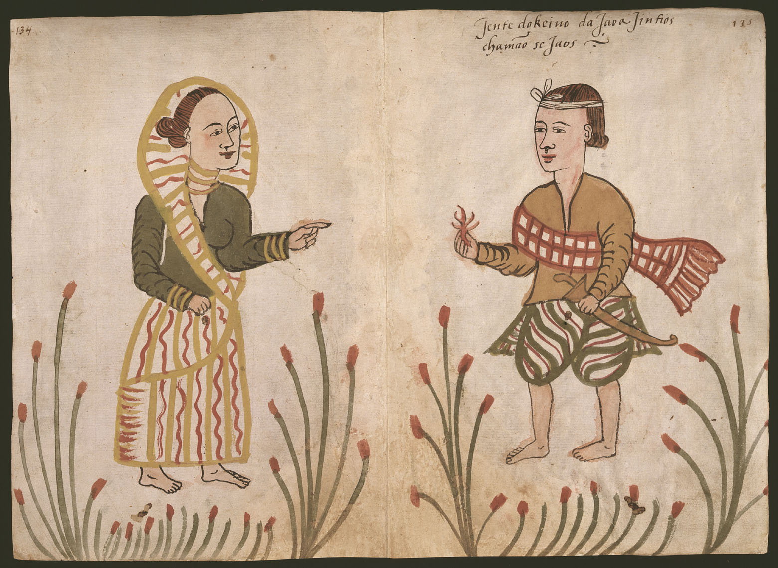 Anonymous 16th century Portuguese illustration contained within the Códice Casanatense, depicting a couple from the island of Java. The inscription reads: "People from the kingdom of the Java, gentiles, called Jaos.